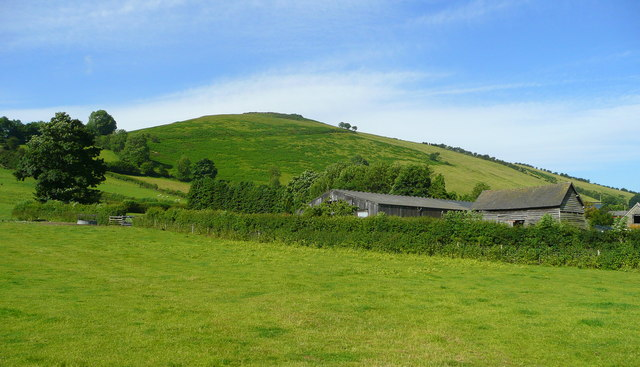 View towards Caer Caradoc The farm buildings are at the east end of the hamlet of Chapel Lawn in the Redlake valley. A high and more visited hill named Caer Caradoc is to the east of All Stretton, giving two hillforts in Shropshire accredited to the early British leader known by the Romans as Caractacus.